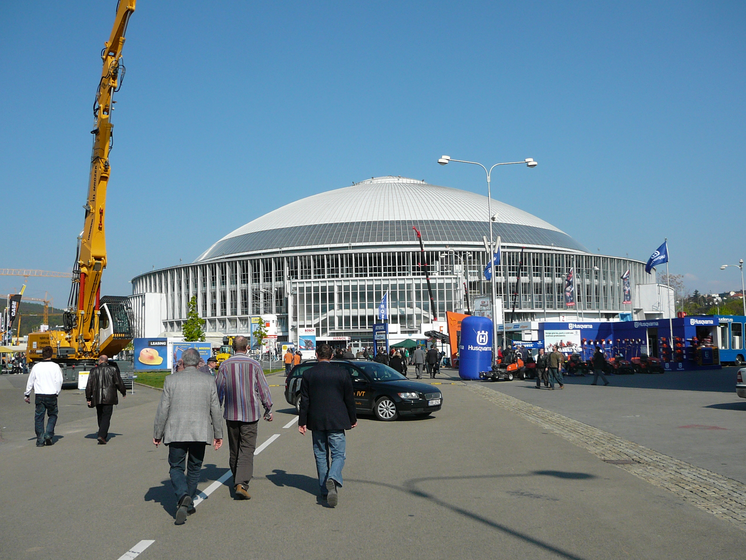 Pavilion Z on the Brno Exhibition Grounds in the Building Fair.